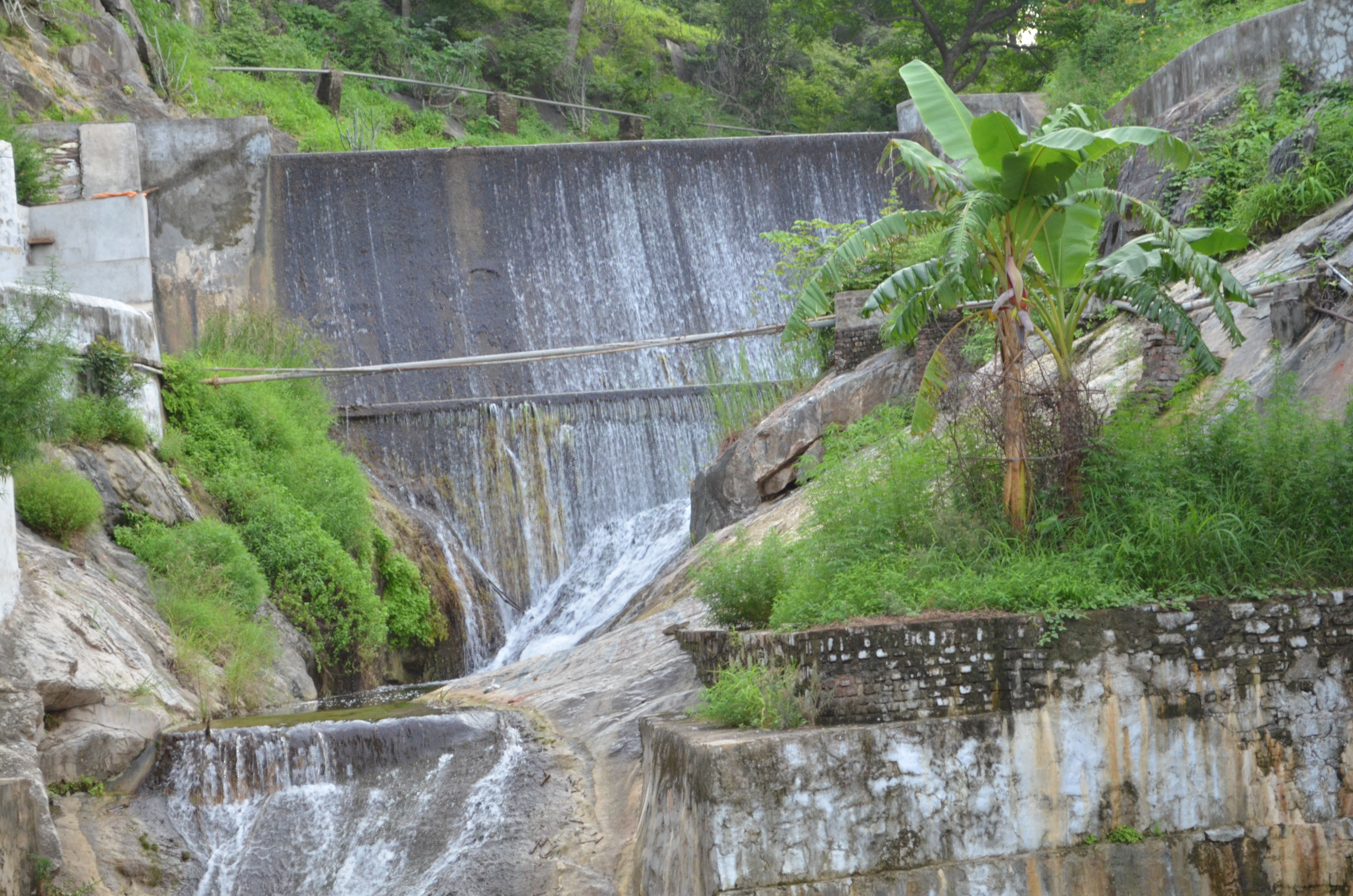 Water fall that fills the kund at the bottom of Parshuram Mahadev Temple in Pali, Rajasthan